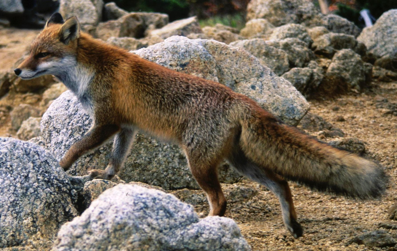 Vulpes vulpes japonica in Mount Shirouma.